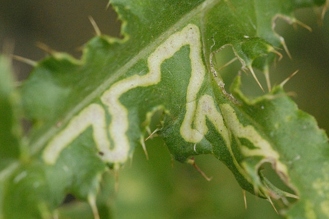 Phytomyza spinaciae from Commanster, Belgian High Ardennes .